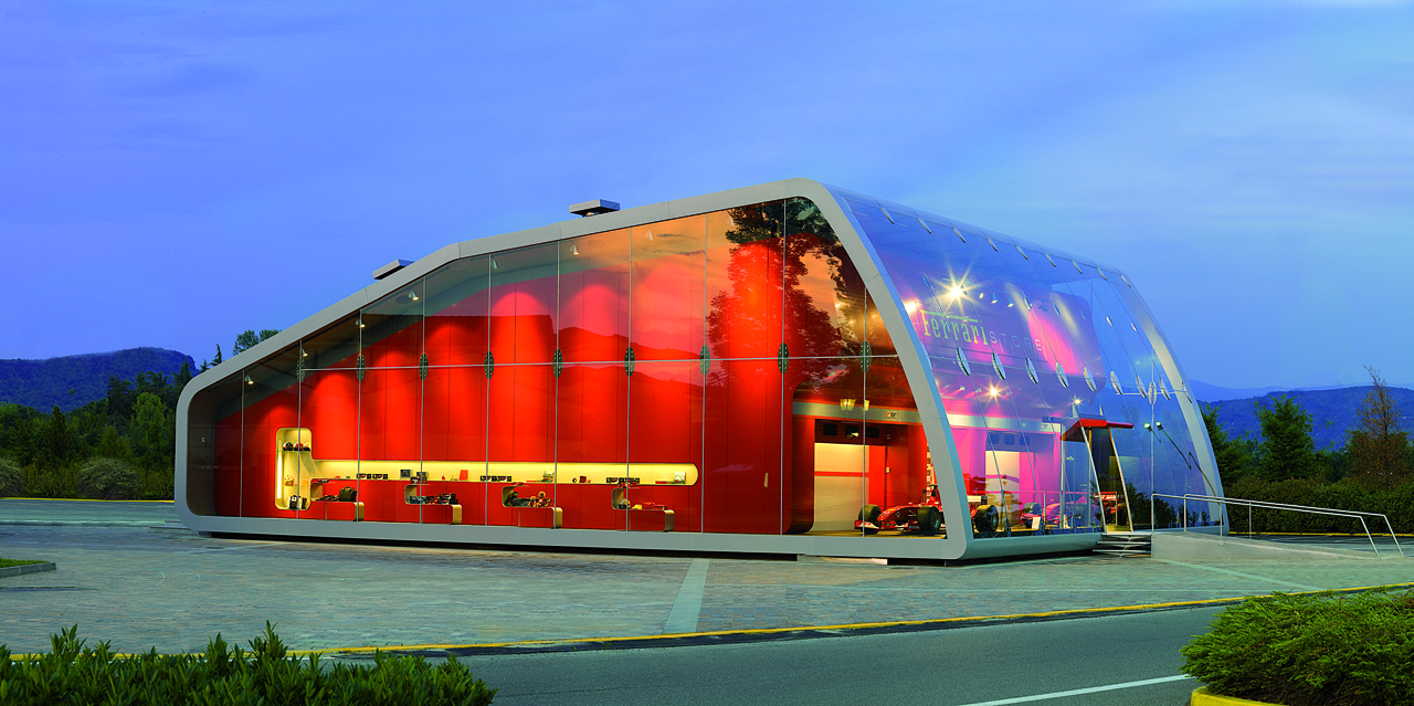 Ferrari Factory Store Serravalle Scrivia courtesy Gianluca Grassano